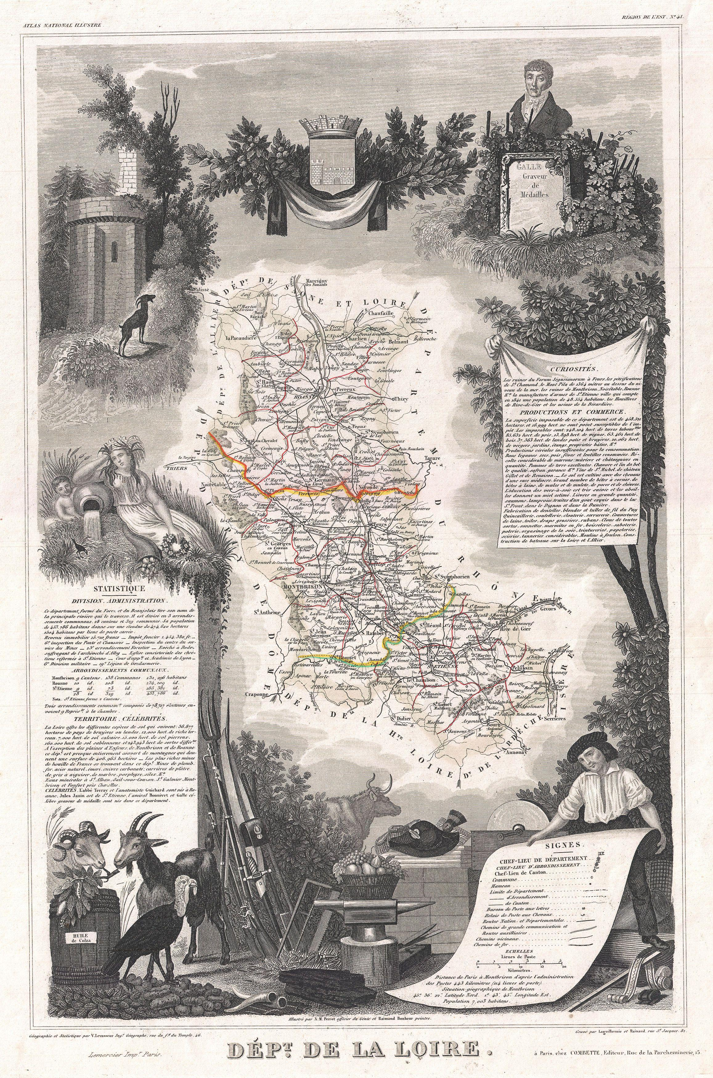 This is a fascinating 1852 map of the French department of Loire, France. This area of France is part of the Loire Valley wine growing region. The area includes 87 appellations under the Appellation d'origine contrôlée, Vin Délimité de Qualité Superieure, and Vin de pays systems. The map proper is surrounded by elaborate decorative engravings designed to illustrate both the natural beauty and trade richness of the land. There is a short textual history of the regions depicted on both the left and right sides of the map. Published by V. Levasseur in the 1852 edition of his Atlas National de la France Illustree.